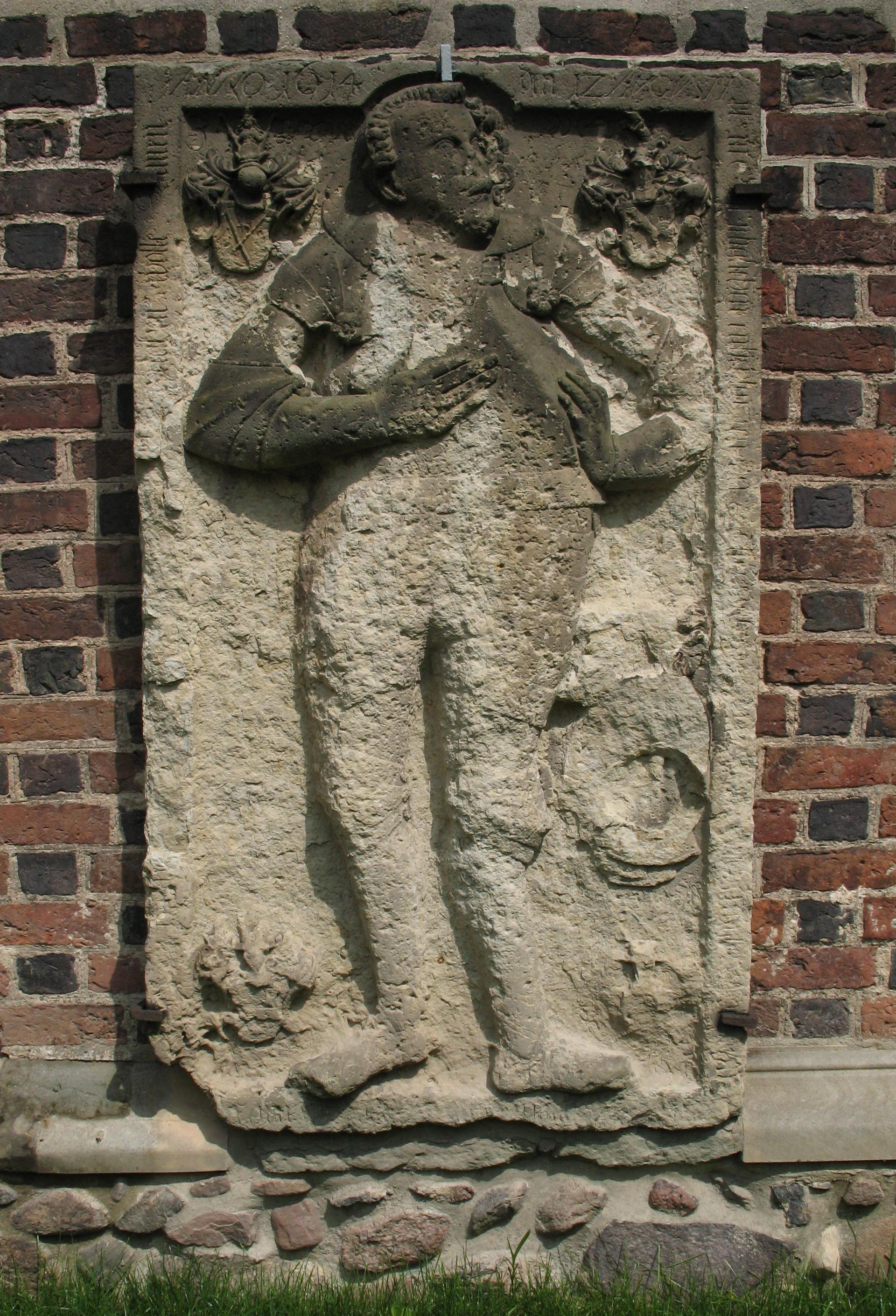 Epitaph in Herzberg in Brandenburg, Germany